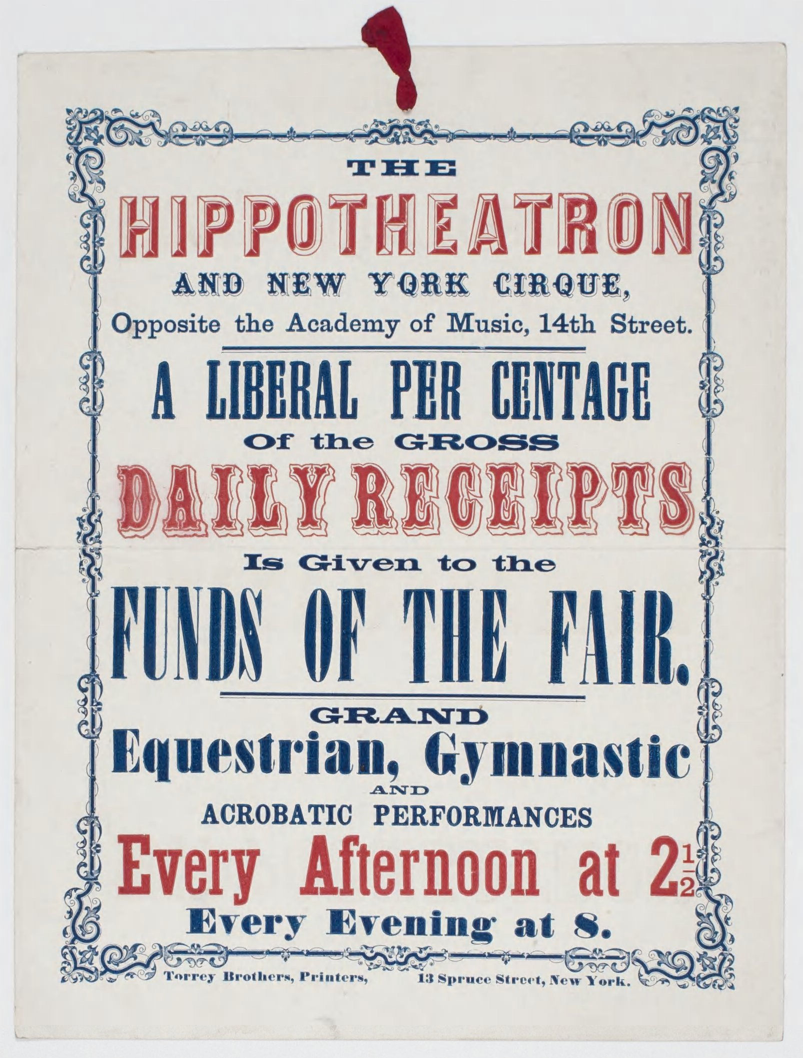 Poster for the Hippotheatron printed by Torrey Brothers, New York (1869)